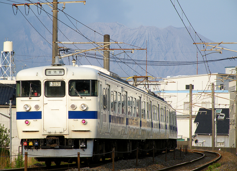 Series 415.5 at Kagoshima railway yard, Kagoshima city, Japan.